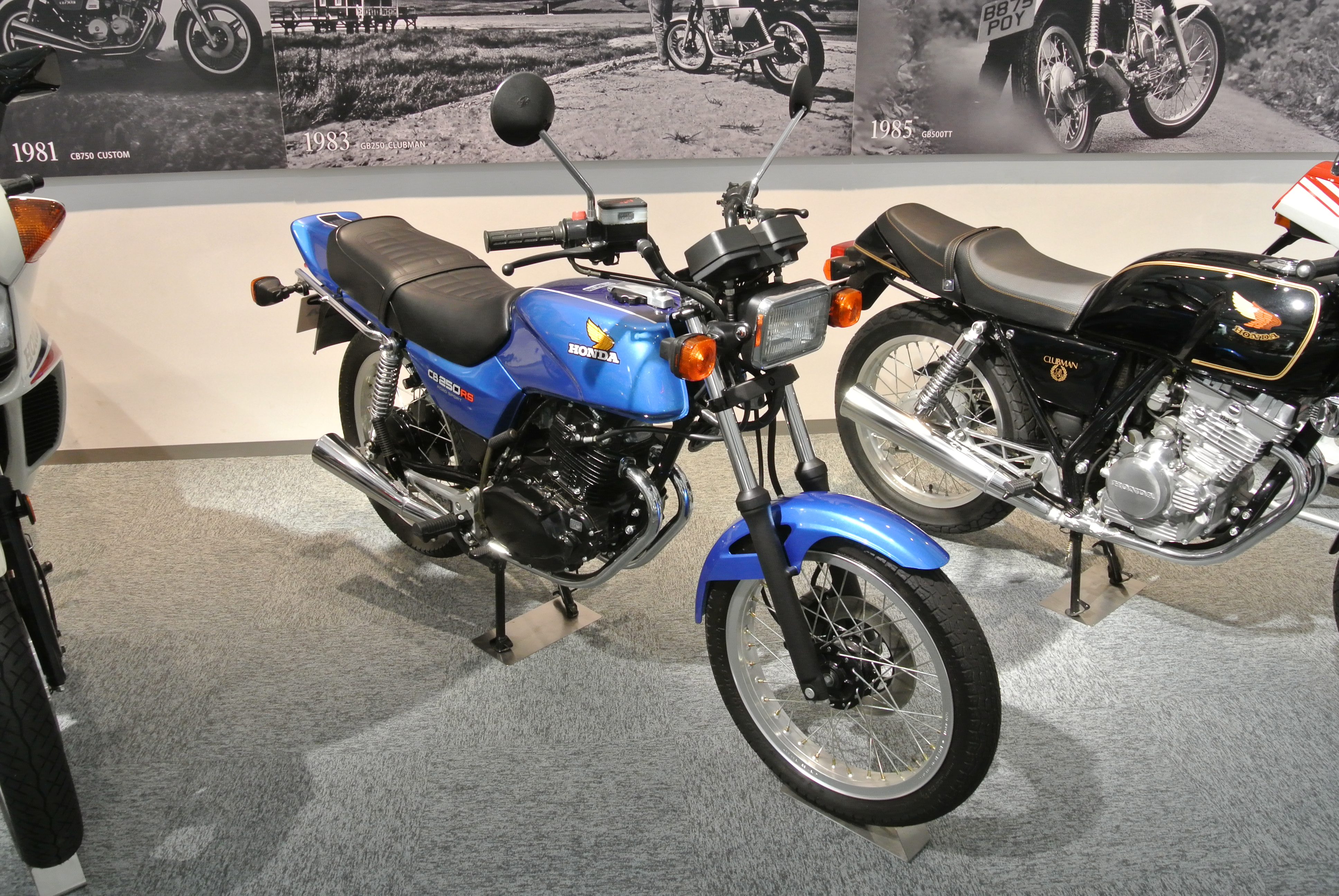 Honda CB250RS in the Honda Collection Hall